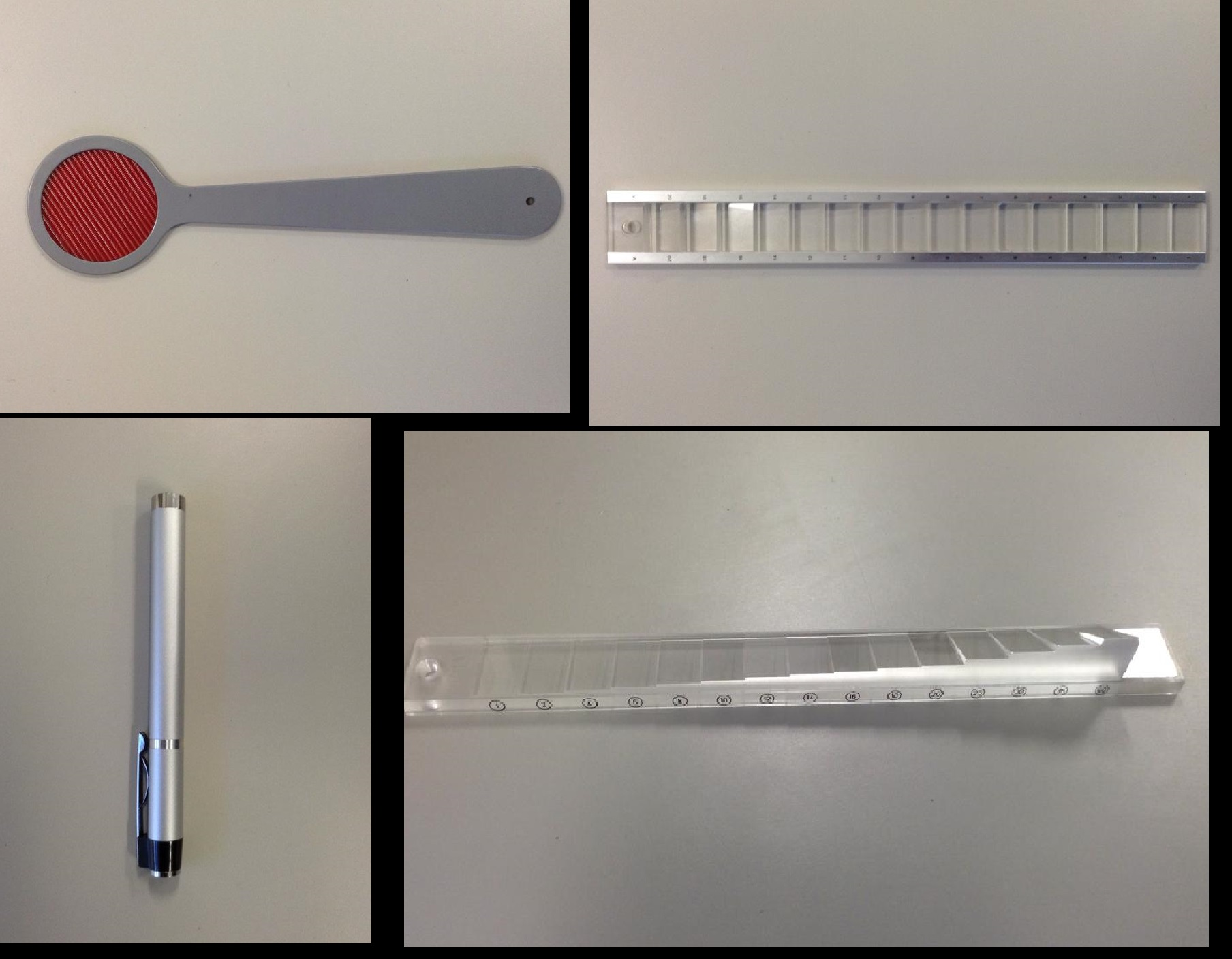 Equipment used in Maddox rod testing